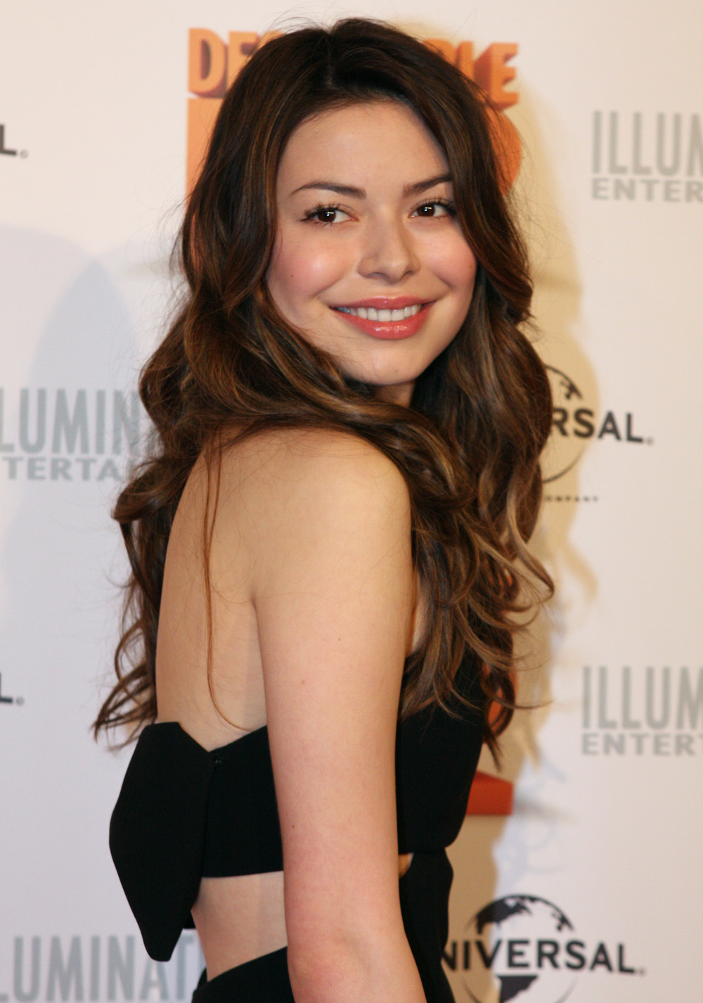 Miranda Cosgrove at the Despicable Me 2 red carpet movie premiere at Event Cinemas, Bondi Junction, Sydney, Australia 2013.